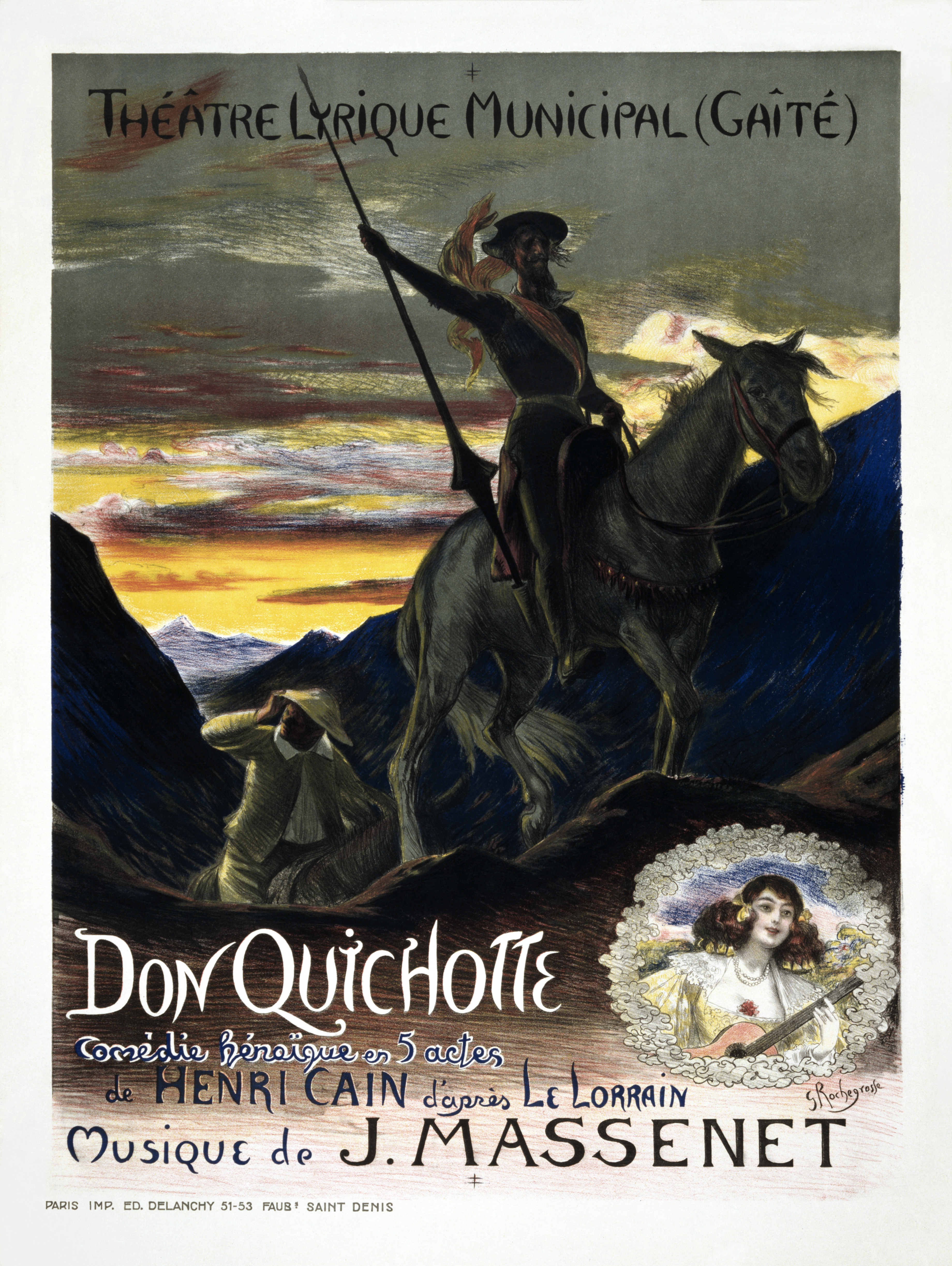 Poster from the first Paris production of Jules Massenet's Don Quichotte, at the Gaîté-Lyrique, published by Ed. Delanchy, Paris. This restoration would have been relatively easy, if not for all the scratches on the image.